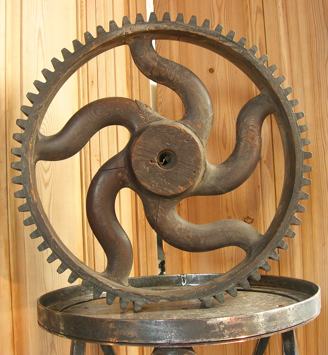 Wooden cogwheel (a pattern for a cast iron gear)